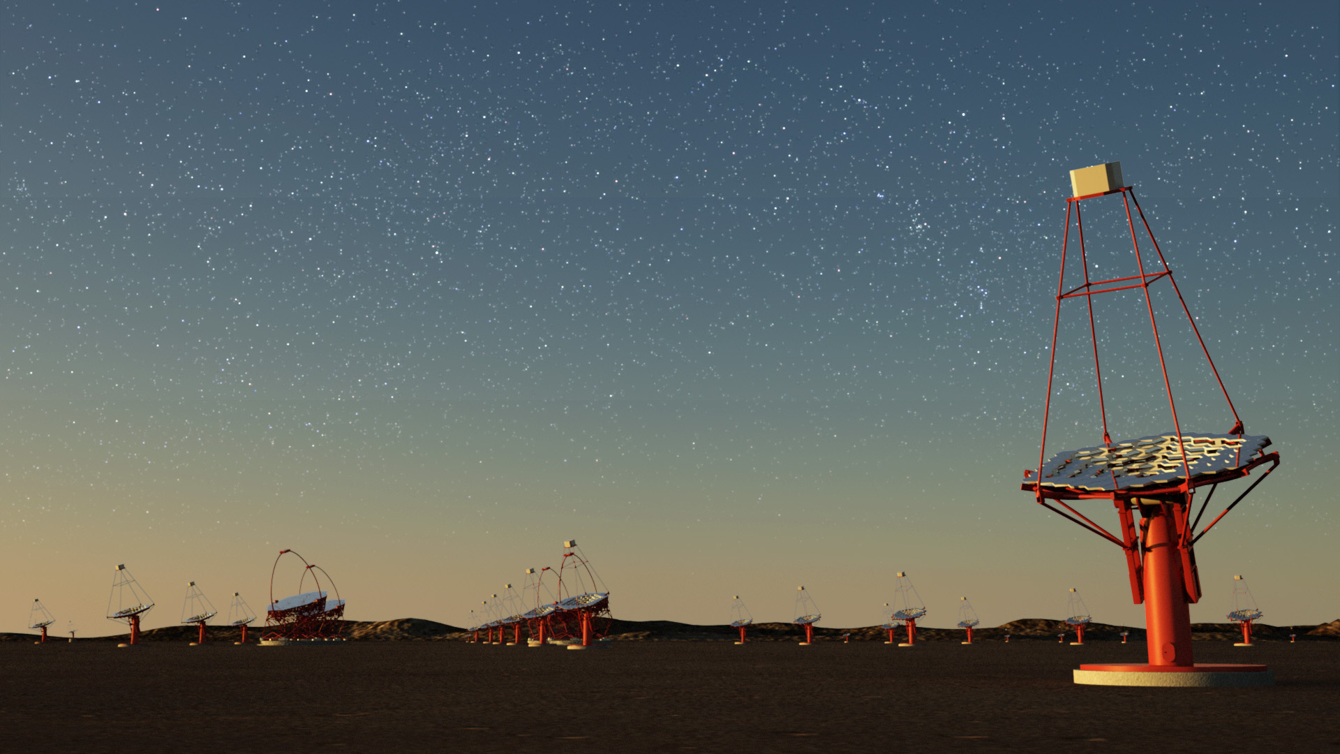 Artists Impression of Conceptual Design for the Cherenkov Telescope Array